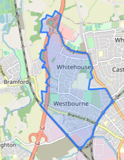 Open Street Map with area shaded blue for Whitehouse Ward, Ipswich This map of North West Ipswich was created from OpenStreetMap project data, collected by the community. This map may be incomplete, and may contain errors. Don't rely solely on it for navigation.